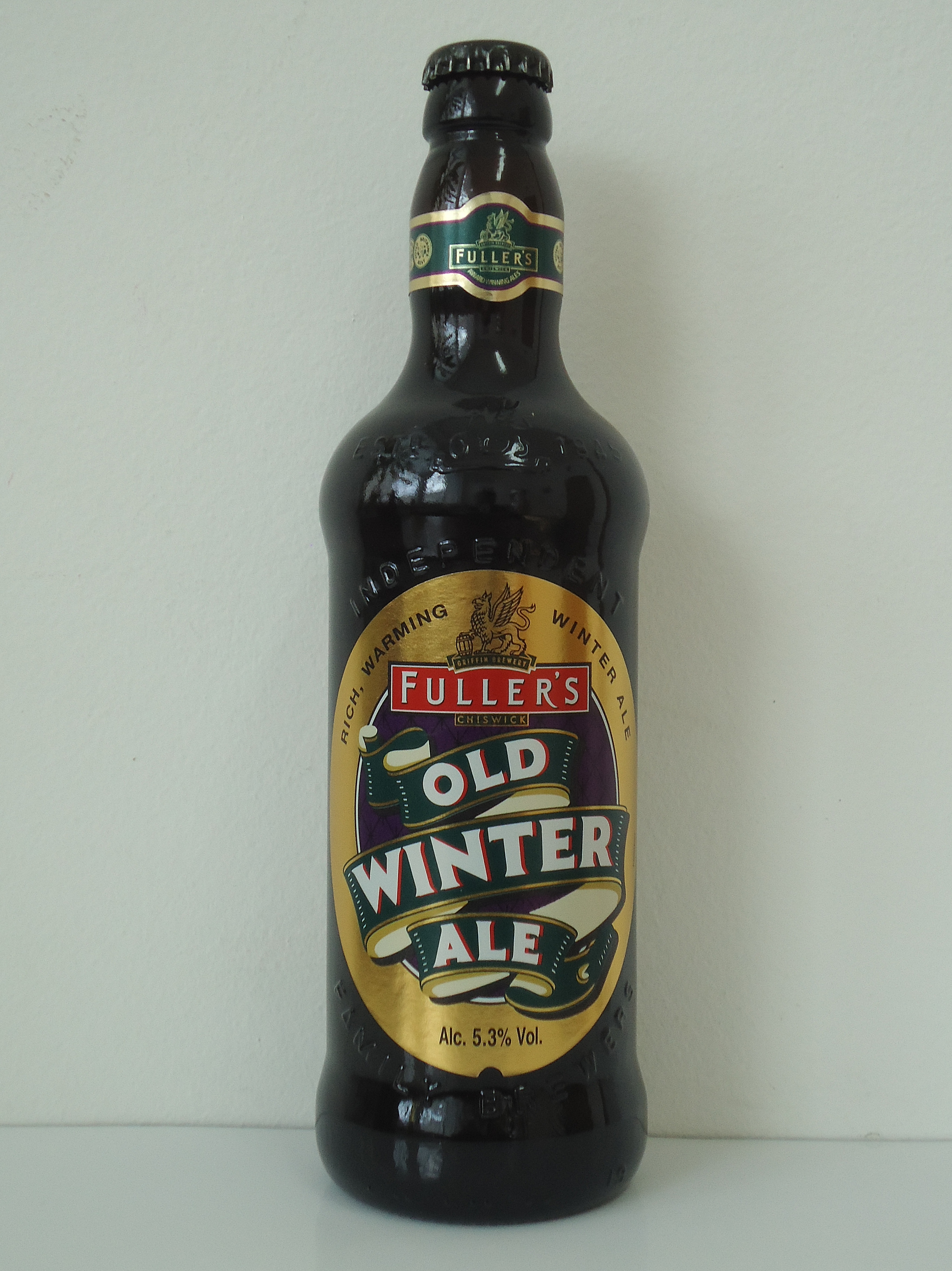 Fuller's Old Winter Ale